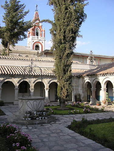 Cloister garden and courtyard of the Monasterio de la Recoleta — Perú.